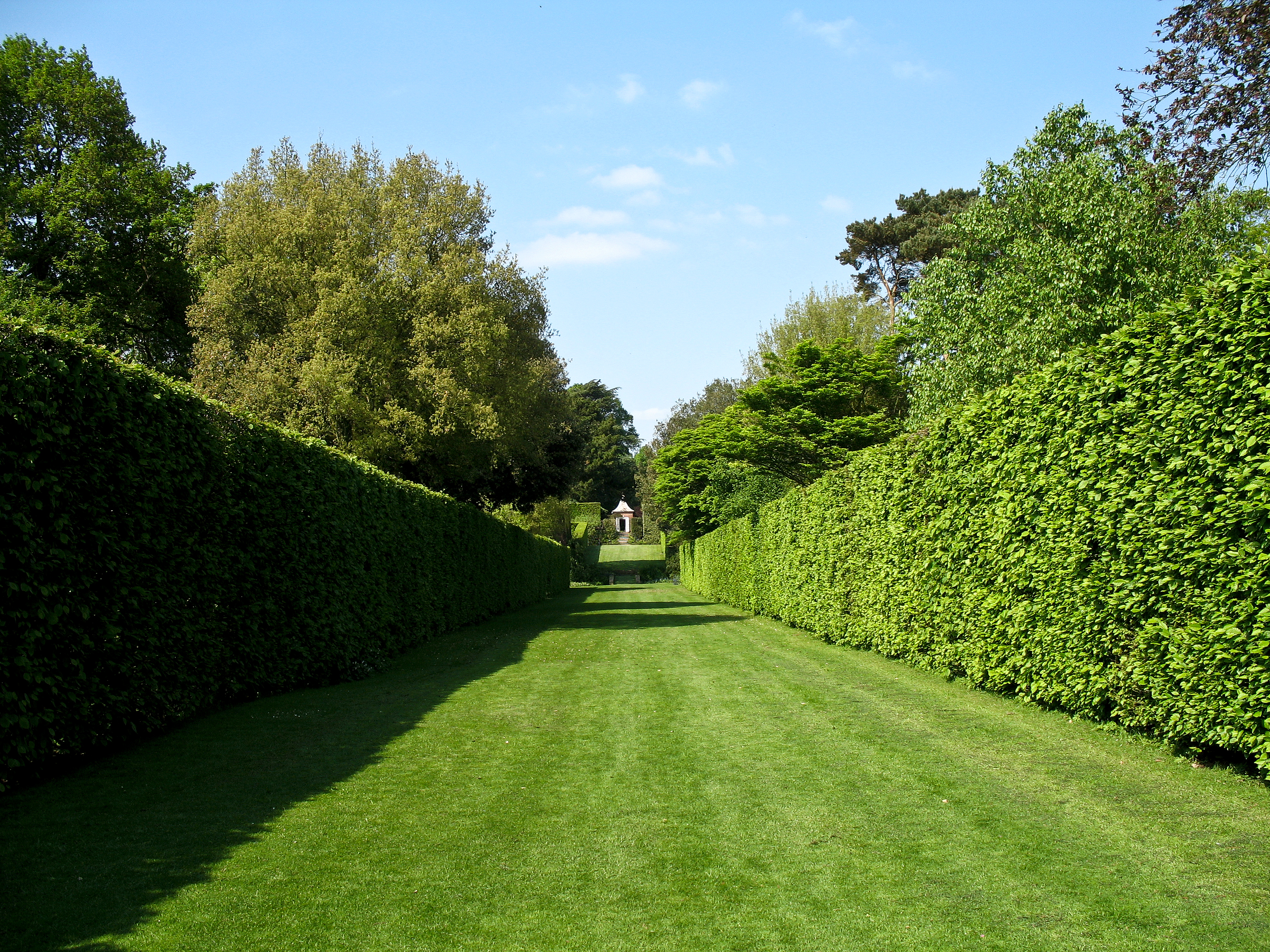 Looking north, up The Long Walk at Hidcote Manor.